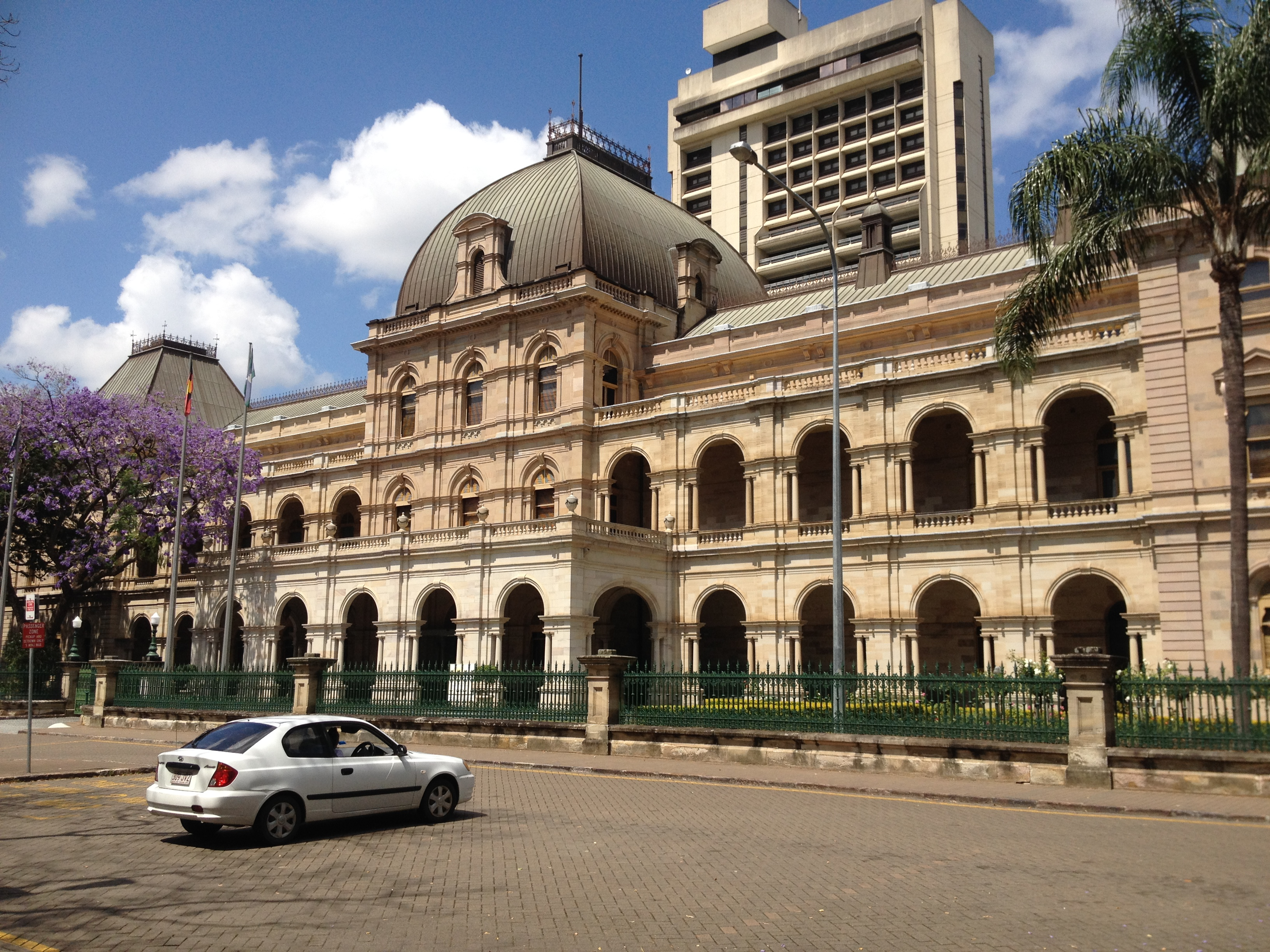 Parliament House, Brisbane seen from the end of George Street, Brisbane